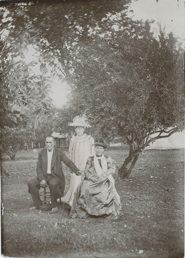 Given the date of this photograph, it is actually the elderly Queen Temaeva V or Temaeva V.